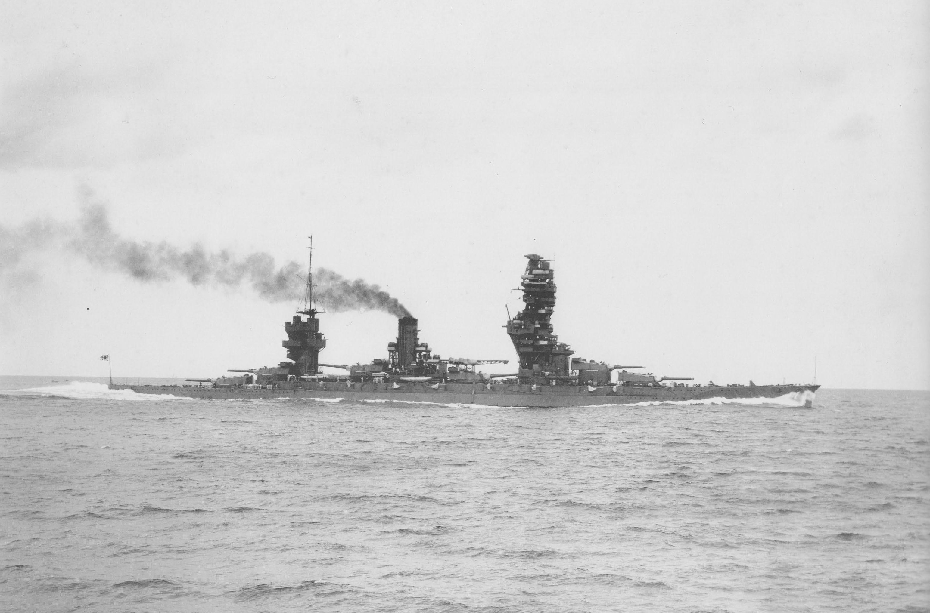 Imperial Japanese Navy battleship Fusō undergoing post-rennovation trials